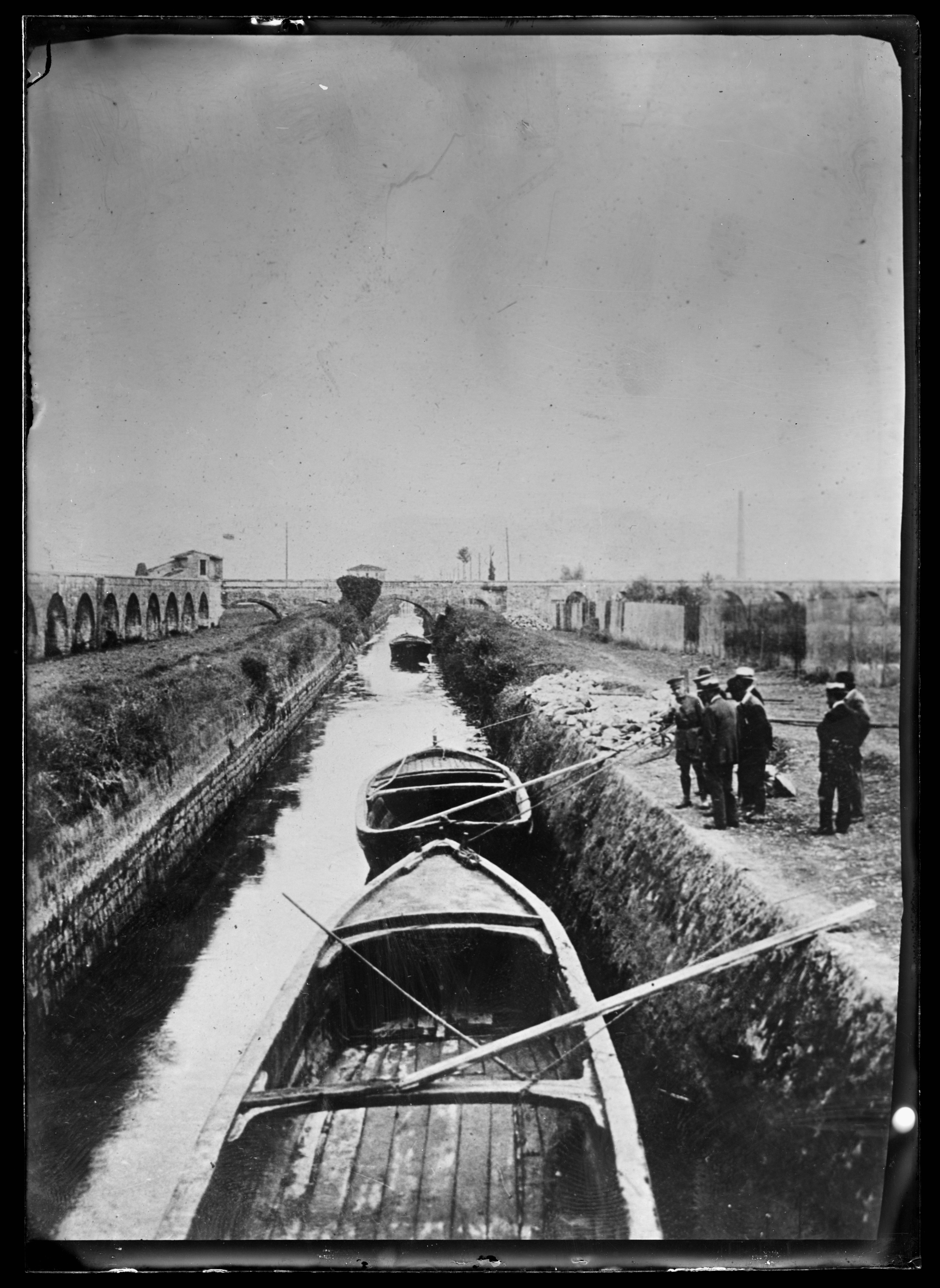 Canal, by old aqueduct near Pisa. These boats bring some of the material for building the American Red Cross concrete village Title, date and notes from Red Cross caption card. Photographer name or source of original from caption card or negative sleeve: ARC Italy. Group title: Reconstruction, Italy Used in: Popular Mechanic. 11/18. Mr. Doherty, 12/18. ms 1409. Gift; American National Red Cross 1944 and 1952. General information about the American National Red Cross photograph collection is available at Temp note: Batch 6